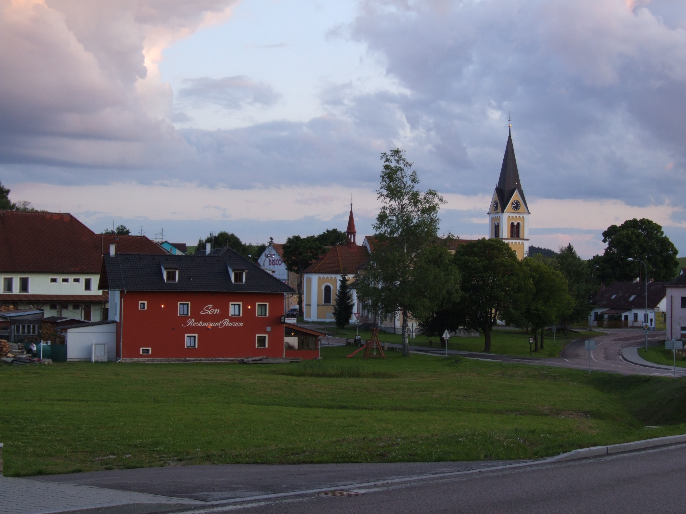 File:Černá v Pošumaví (Schwarzbach) in the evening